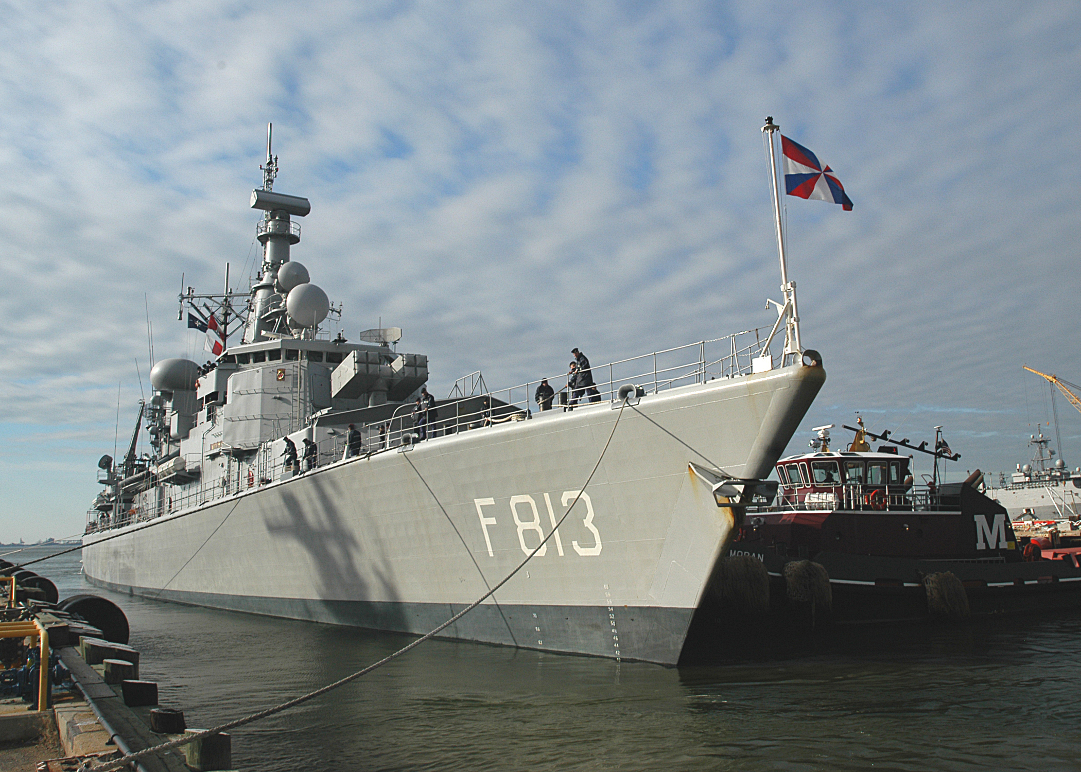 Naval Station Norfolk, Va. (Nov. 18, 2004) – The Royal Netherlands Navy frigate HNLMS Witte de With (F 813), flagship for NATO's Standing Naval Force Atlantic (STANAVFORLANT) is assisted by a tugboat while mooring at Naval Station Norfolk, Va. A total of six STANAVFORLANT ships pulled in for a port visit following multinational exercises along the East Coast of the United States. U.S. Navy photo by Photographer’s Mate 2nd Class Greg Roberts (RELEASED)